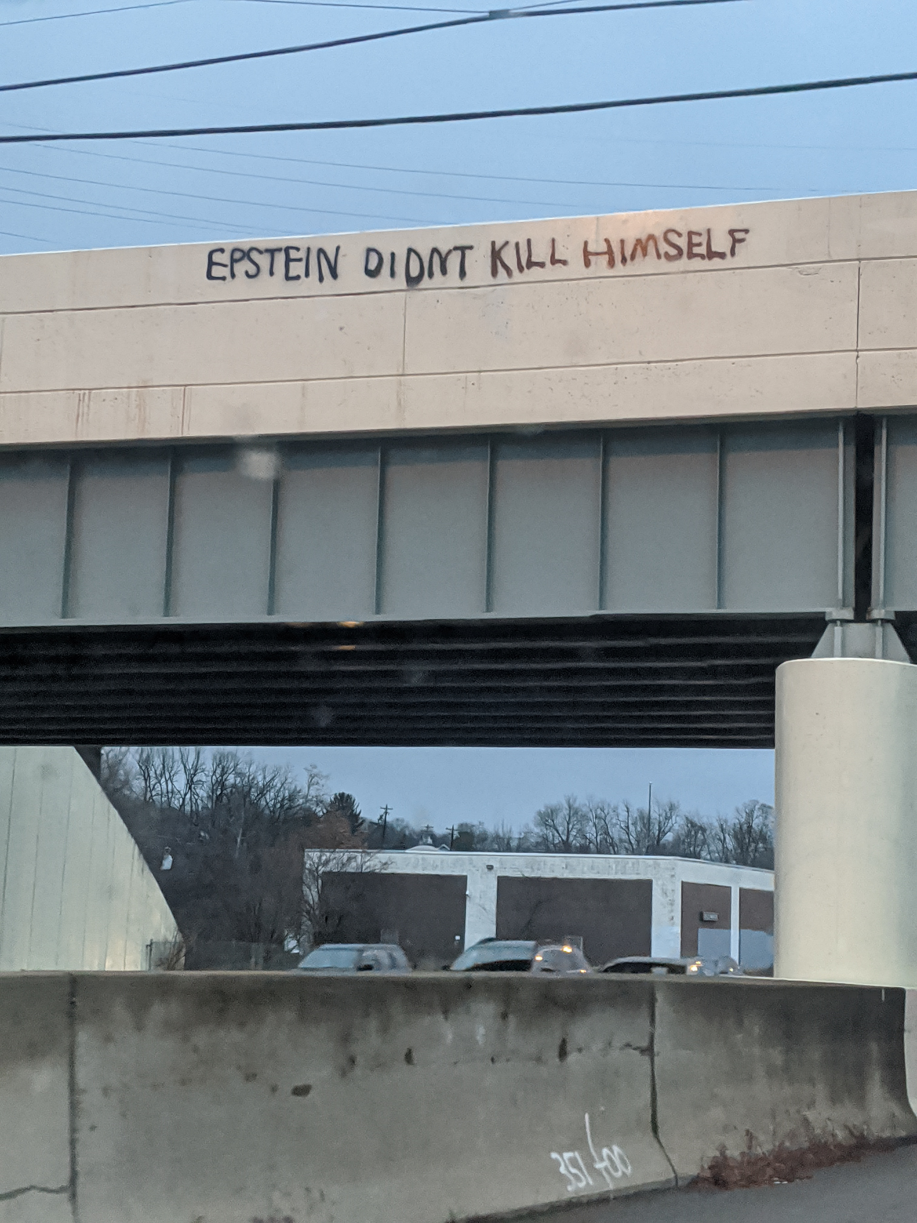 Graffiti on an overpass on I-71 N in Cincinnati, Ohio.